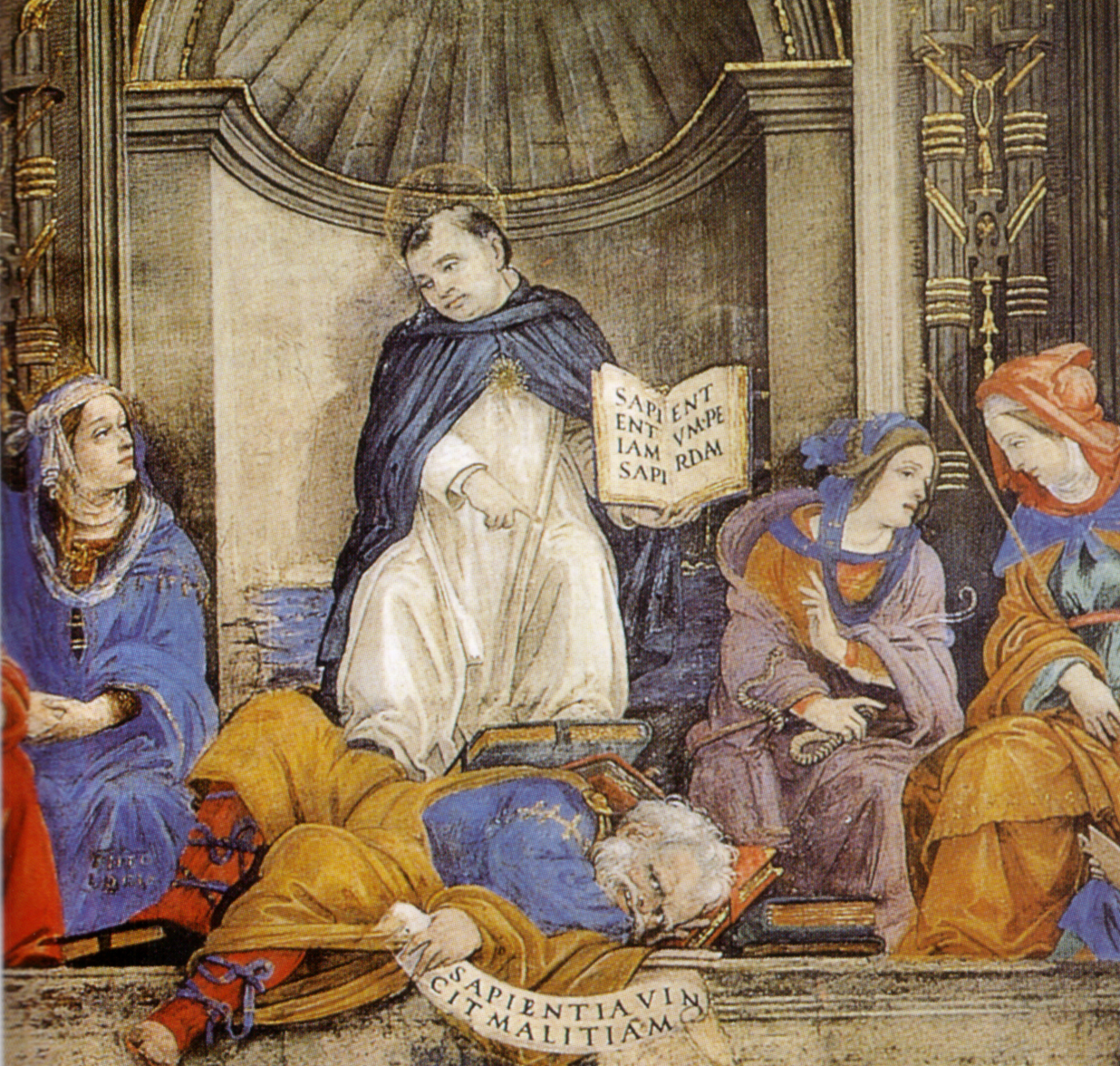 "Triumph of St Thomas Aquinas over the Heretics" Fresco Santa Maria sopra Minerva (Rome)Native nameBasilica di Santa Maria sopra MinervaLocationPiazza della Minerva 42, Roma, ItaliaCoordinates41° 53′ 53.0″ N, 12° 28′ 42.0″ EEstablished1370 (year consecrated)Websiteofficial website